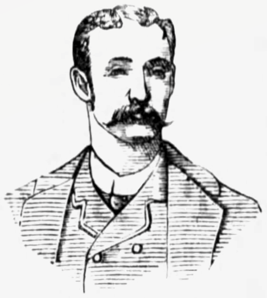 An illustration of professional baseball player Alex Voss